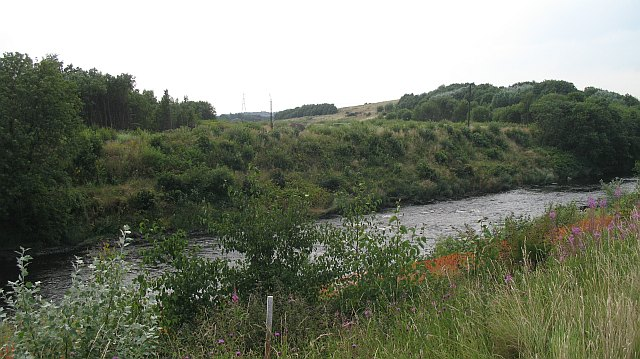 M74 bridge site The M74 will cross the Clyde here, so this is already an historic image. The controversial urban motorway is due for completion in 2011.